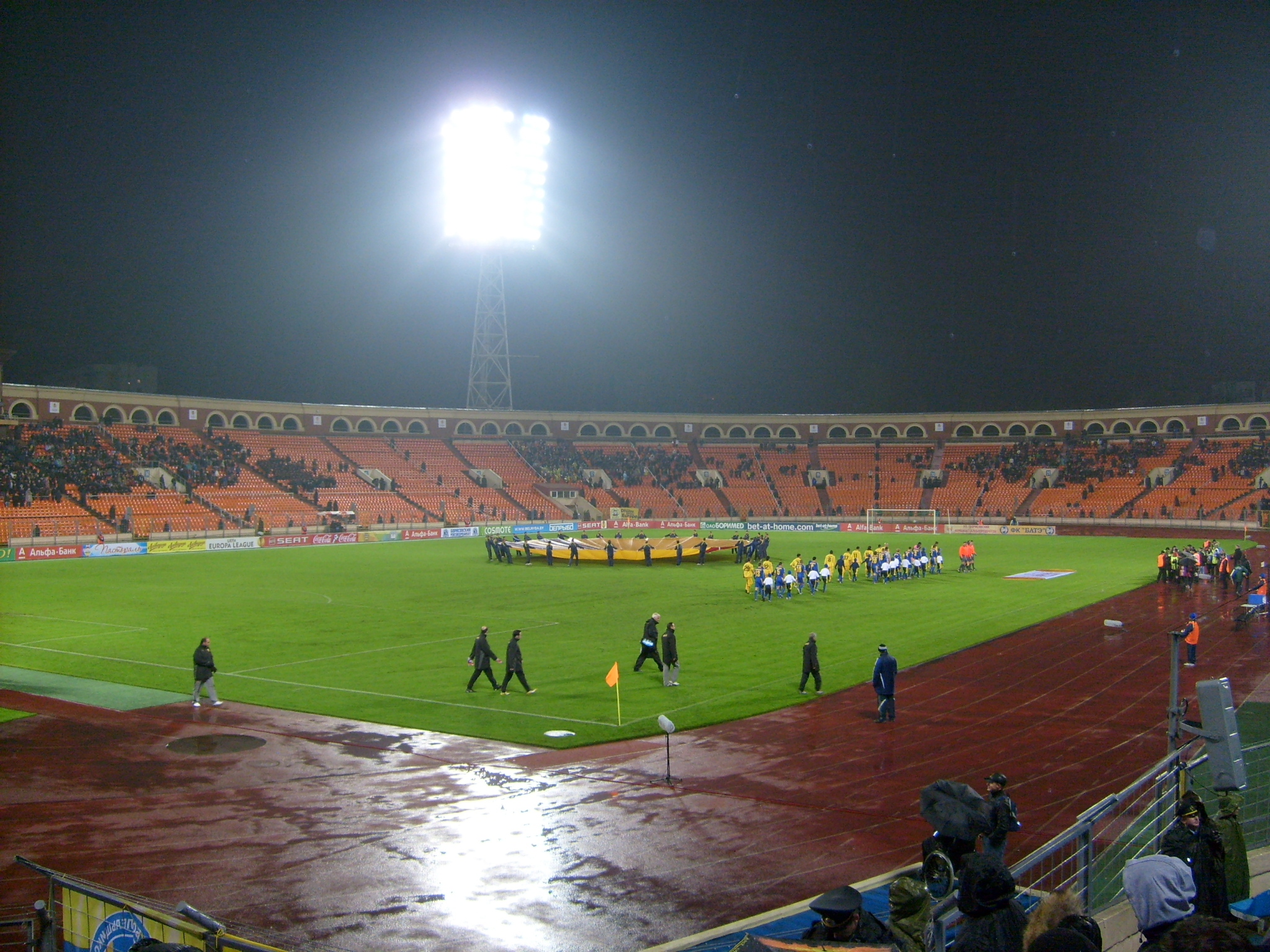 Dynamo stadium, Minsk, 22-10-2009. UEFA Europa league match BATE-AEK 2:1